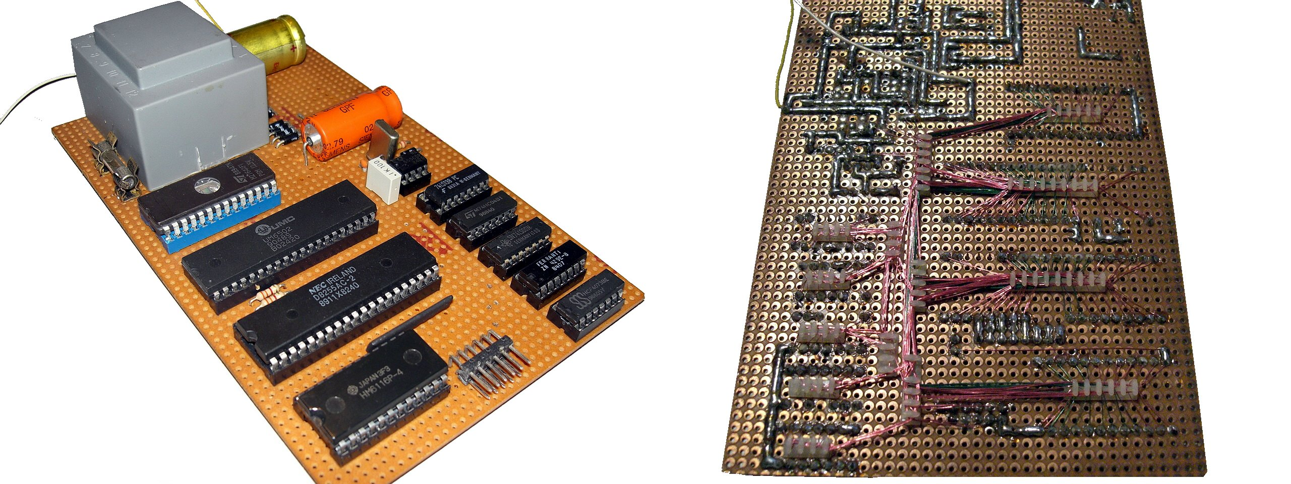 EMUF Einplatinencomputer [CPU 6502/2KB RAM/8KB ROM/PIO 8255]